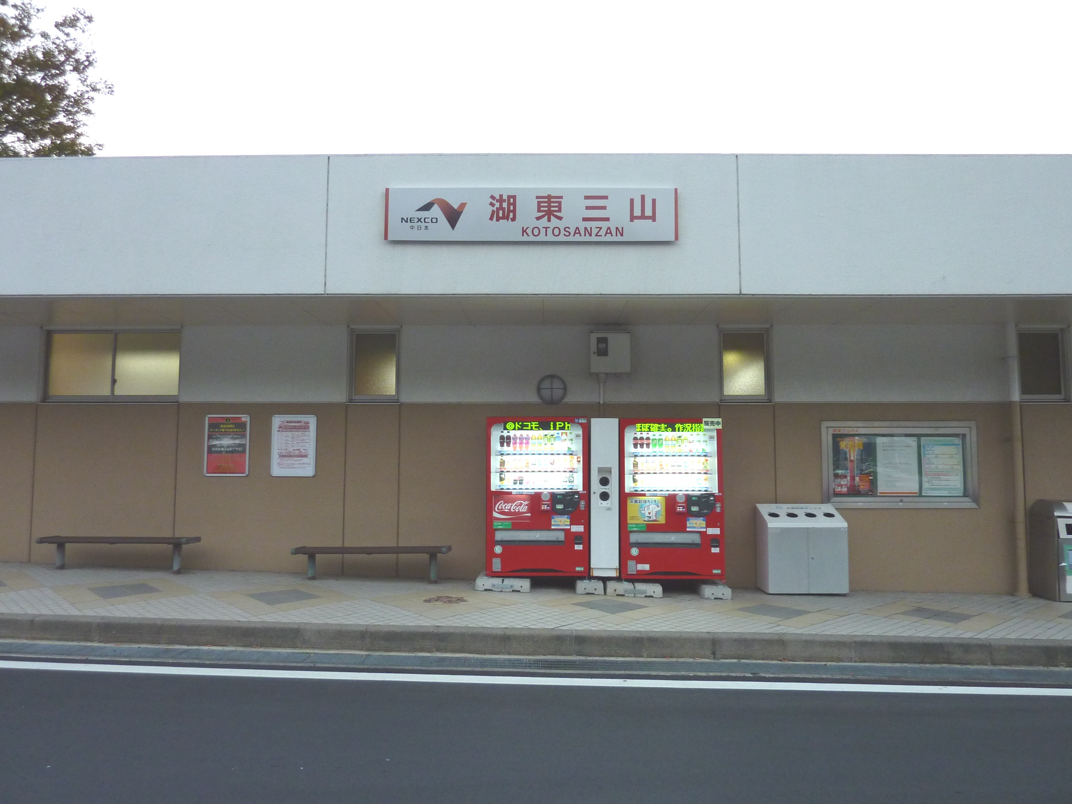 Kotosanzan Parking Area on the Meishin Expressway